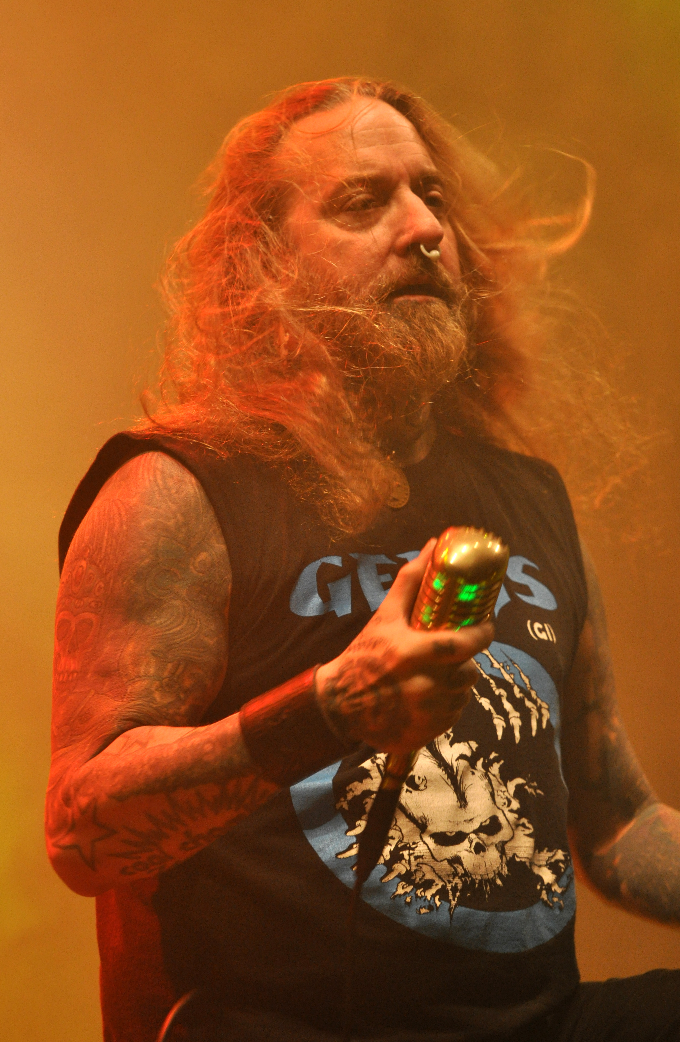 DevilDriver at Paaspop 2014